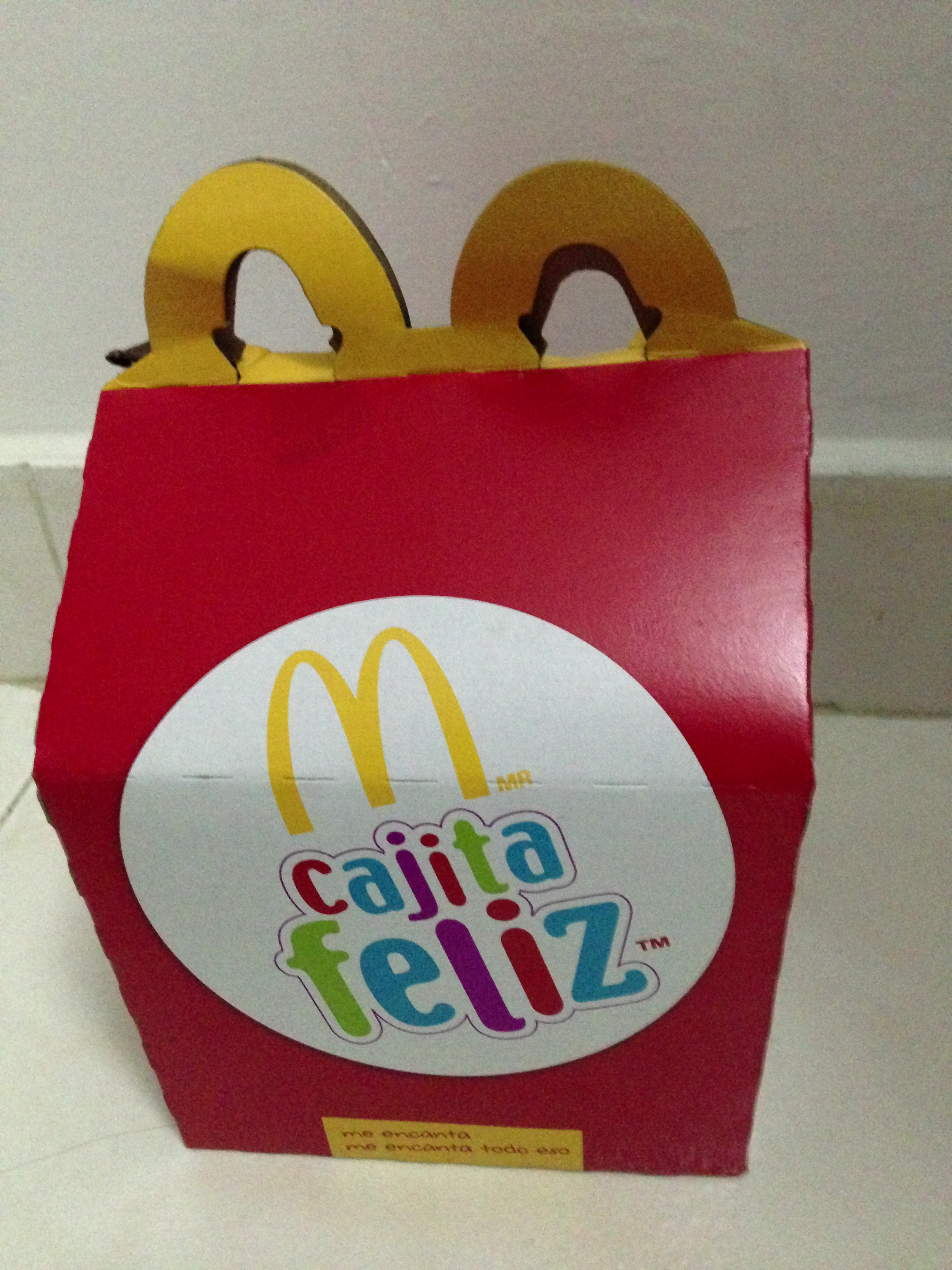 The Happy Meal of Mcdonalds Latinoamérica